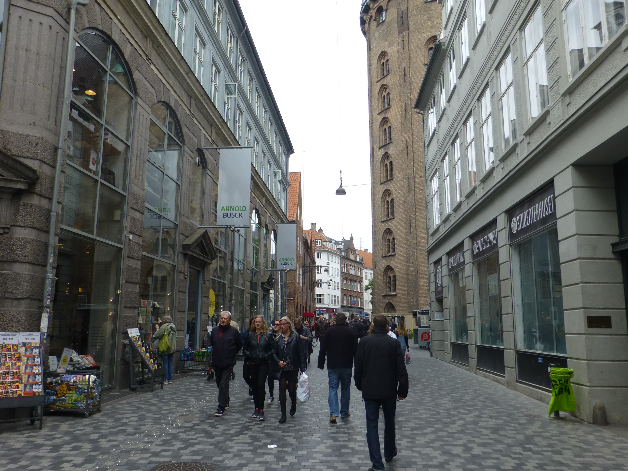 The street Købmagergade in Indre By in Copenhagen. In the background Rundetårn (the round tower).